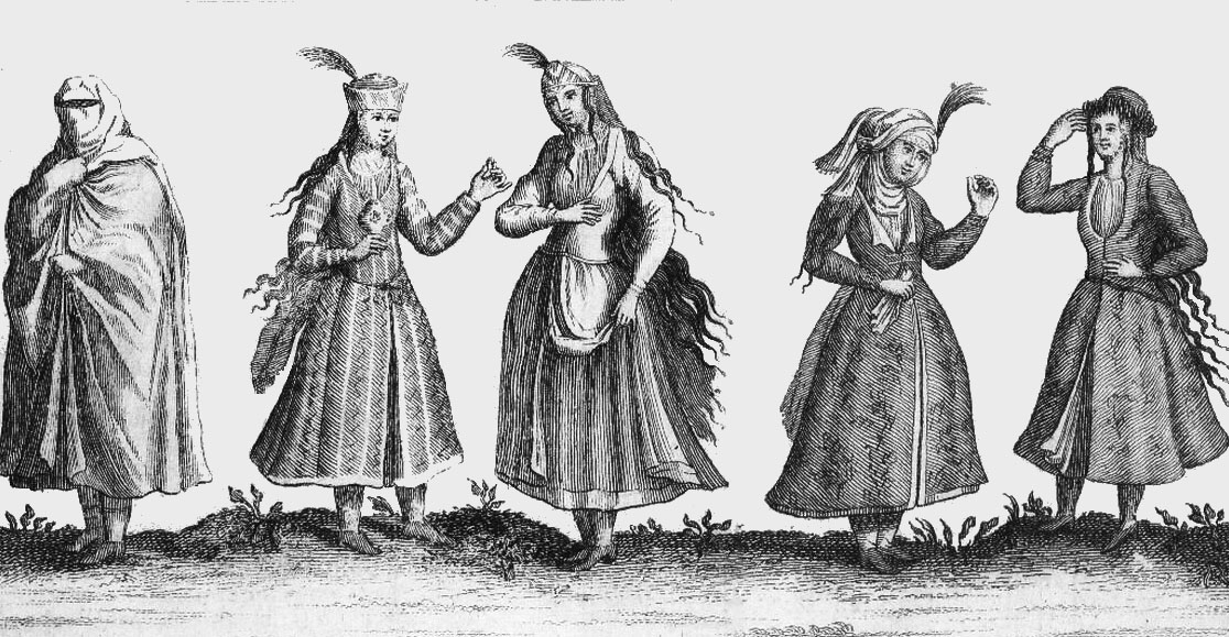 Customs: Women's clothing in Safavid Persia.